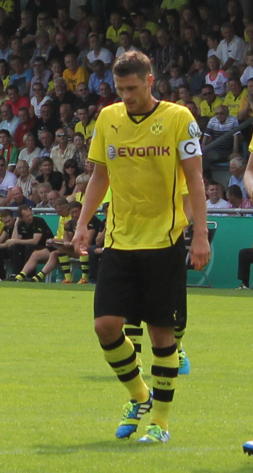 Sebastian Kehl 2013 in Wilhelmshaven